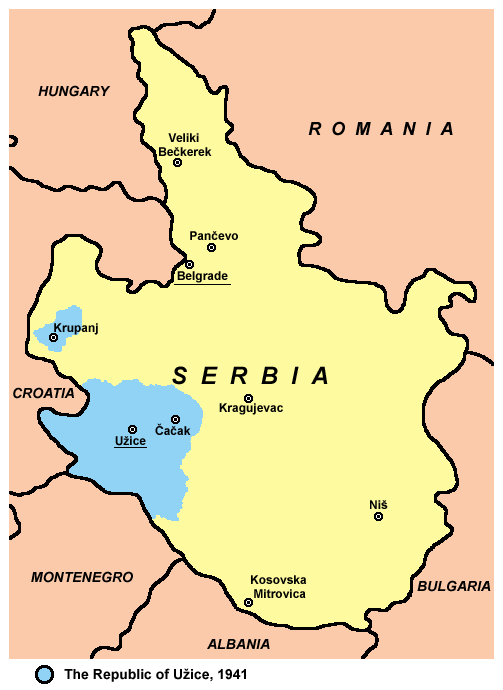 A map of the territory controlled by the partisans of Užice - The Republic of Užice.